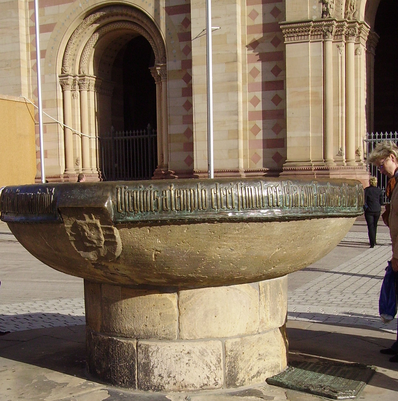 Cathedral of Speyer, Germany